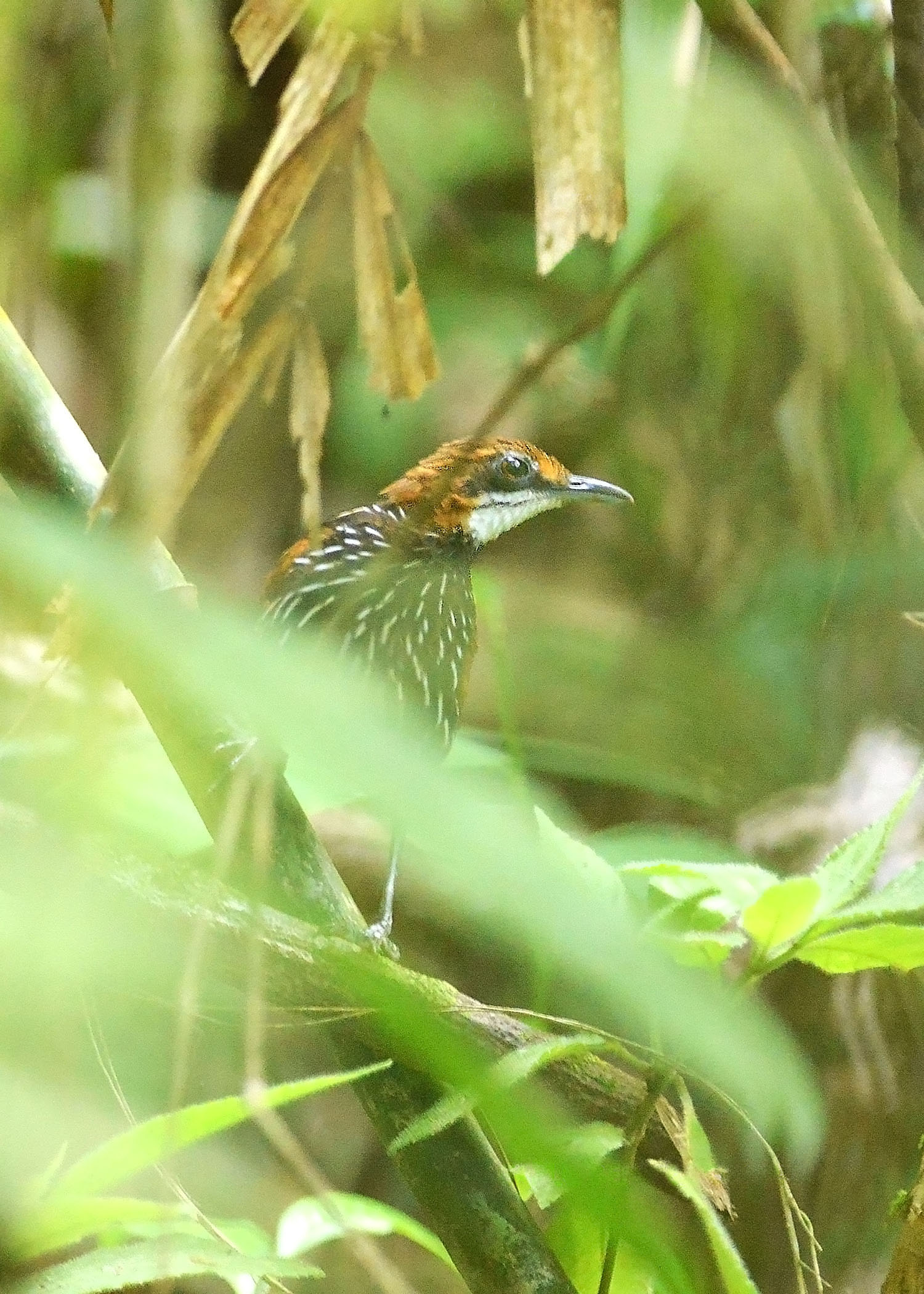 Rare Philippine endemic restricted to Palawan. Photo taken in Puerto Princesa City